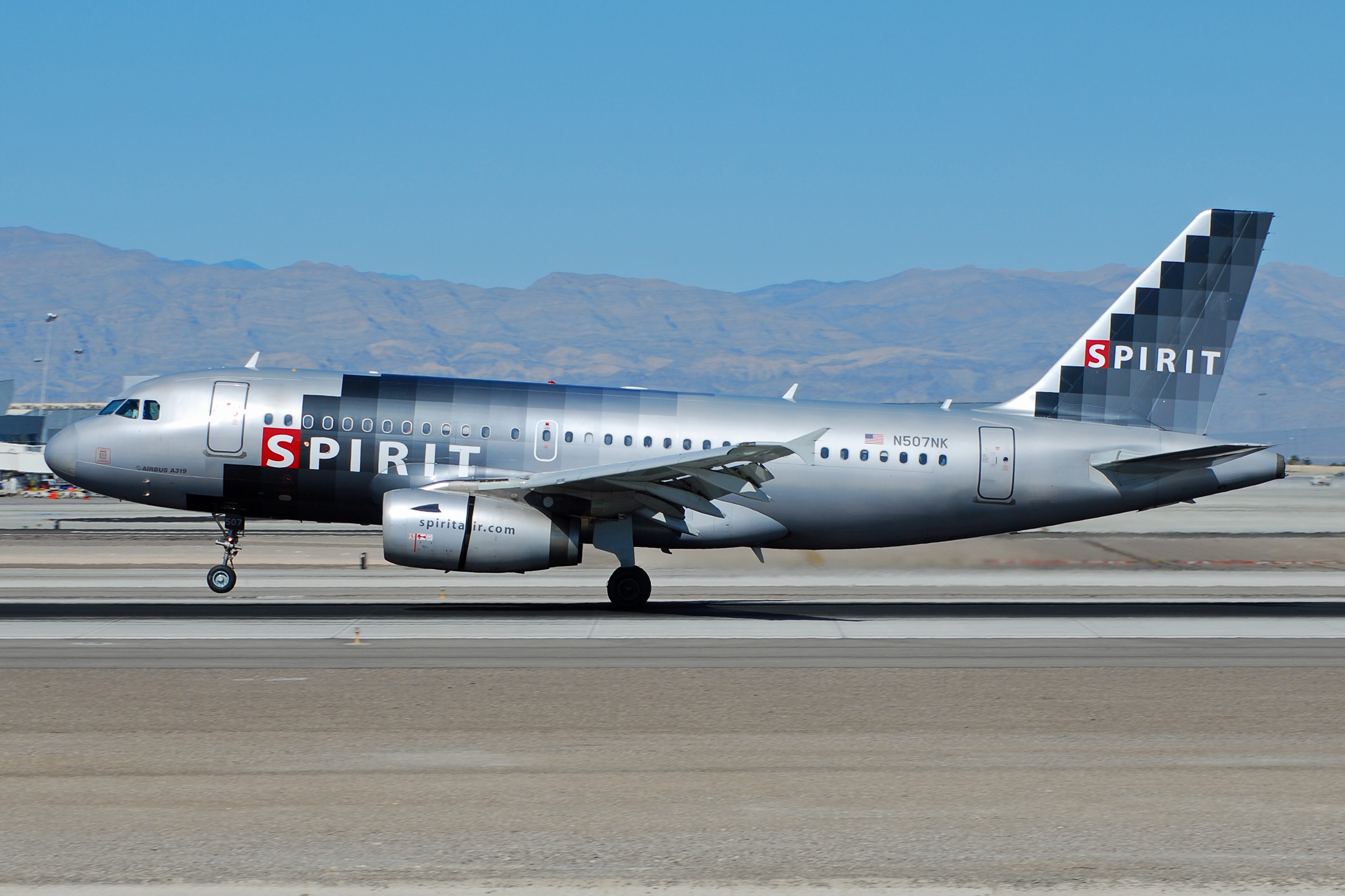 Spirit Airlines Airbus A319 (registration N507NK) touching down at McCarran International Airport in Las Vegas. This plane is painted in the grayscale livery of the mid-2000s.